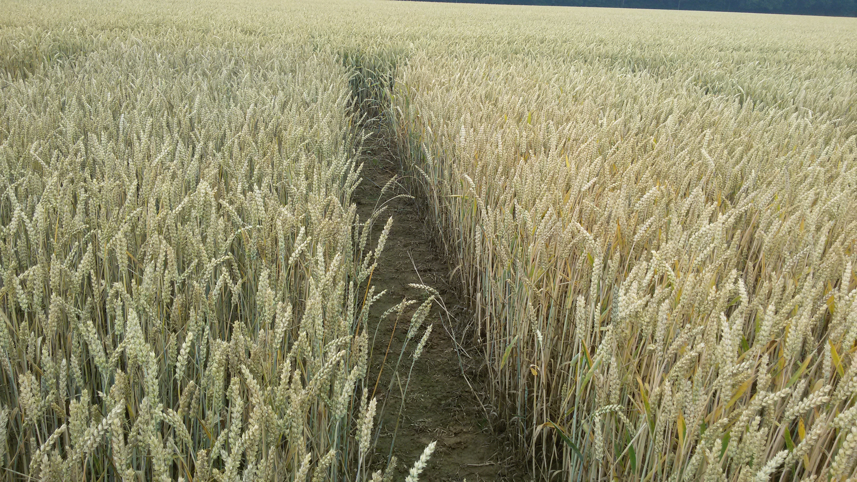 Field fungicide trial in wheat with sooty mold, right side treated plot, left side untreated control